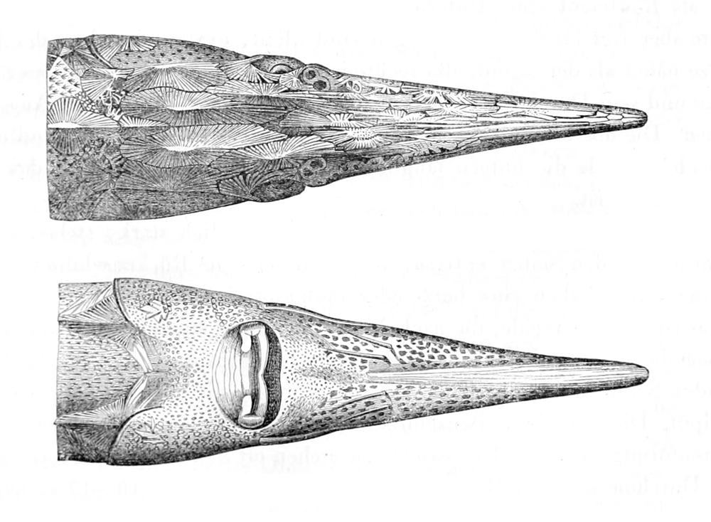 head of Acipenser stellatus